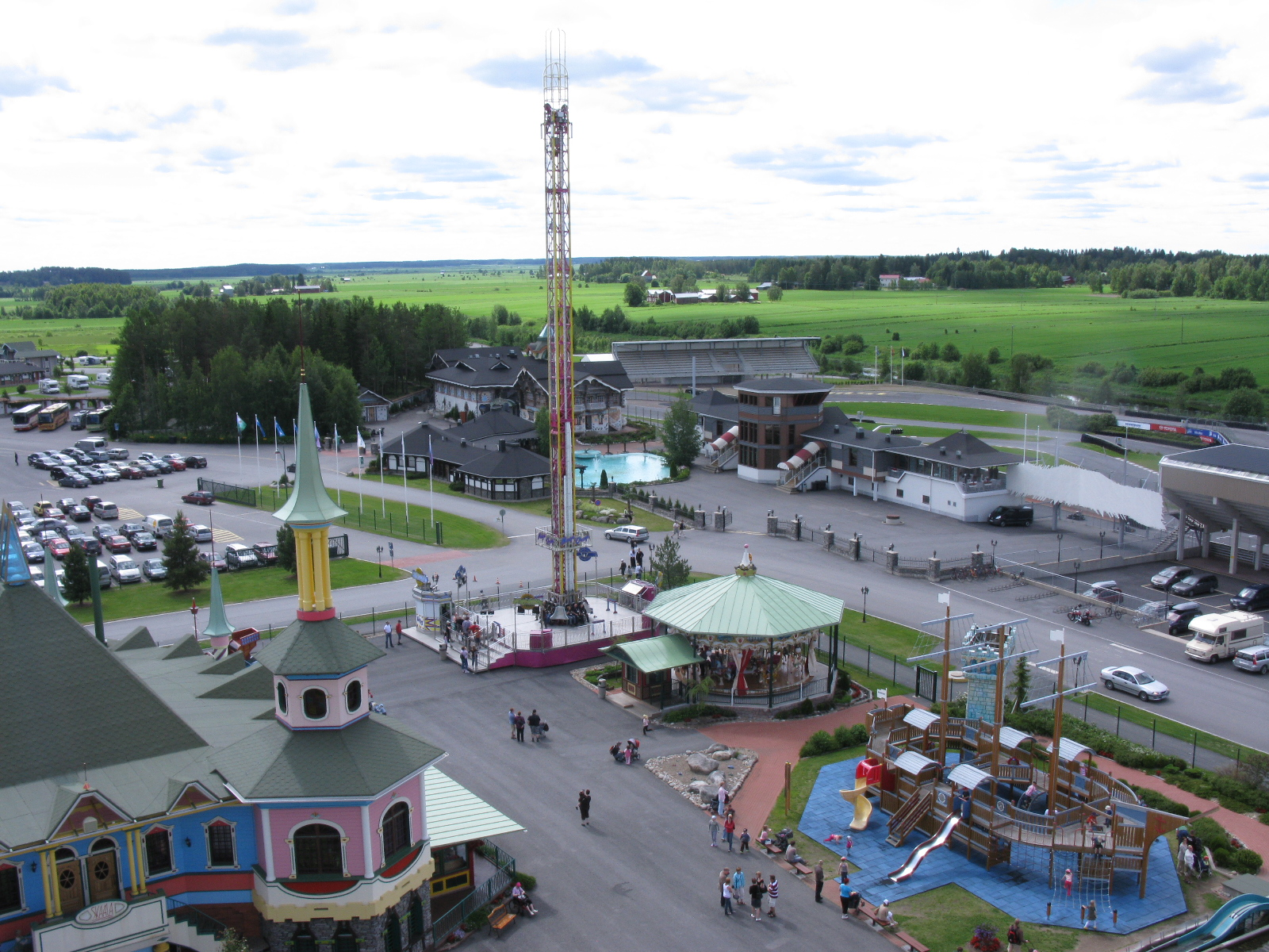 The PowerPark amusement park area in Alahärmä, Finland. The Mika Salo Circuit shown, too.